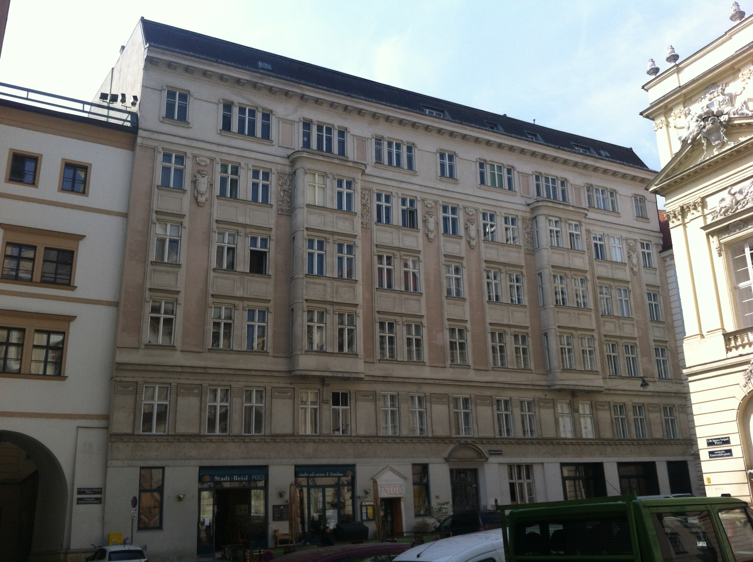 Art nouveau house in Vienna at Bäckerstraße 18. Built in 1904 at the site of Palais Albrecht by Rudolf Demski.